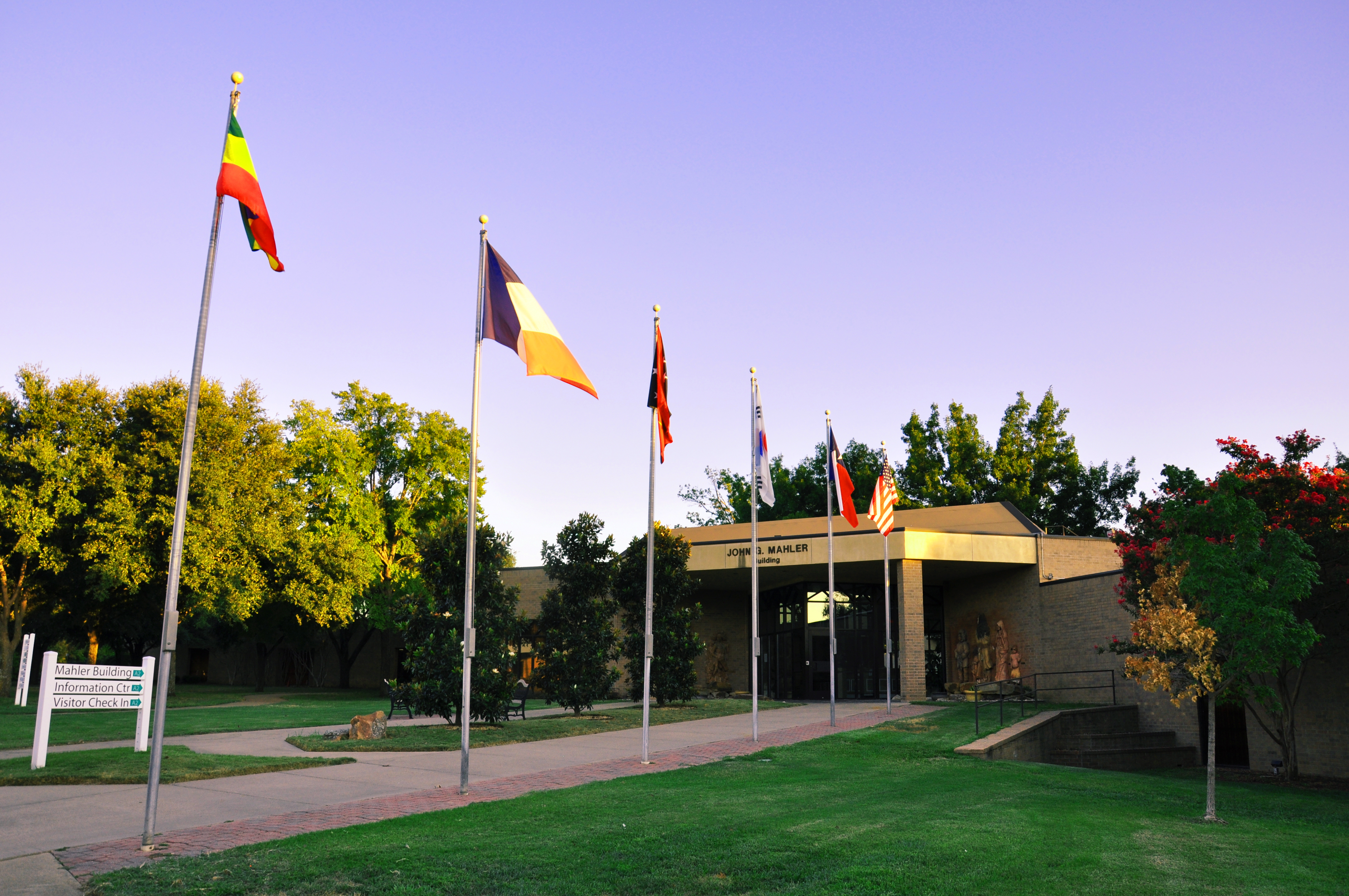 A shot of Mahler Building, home of the welcome center for Dallas International University.